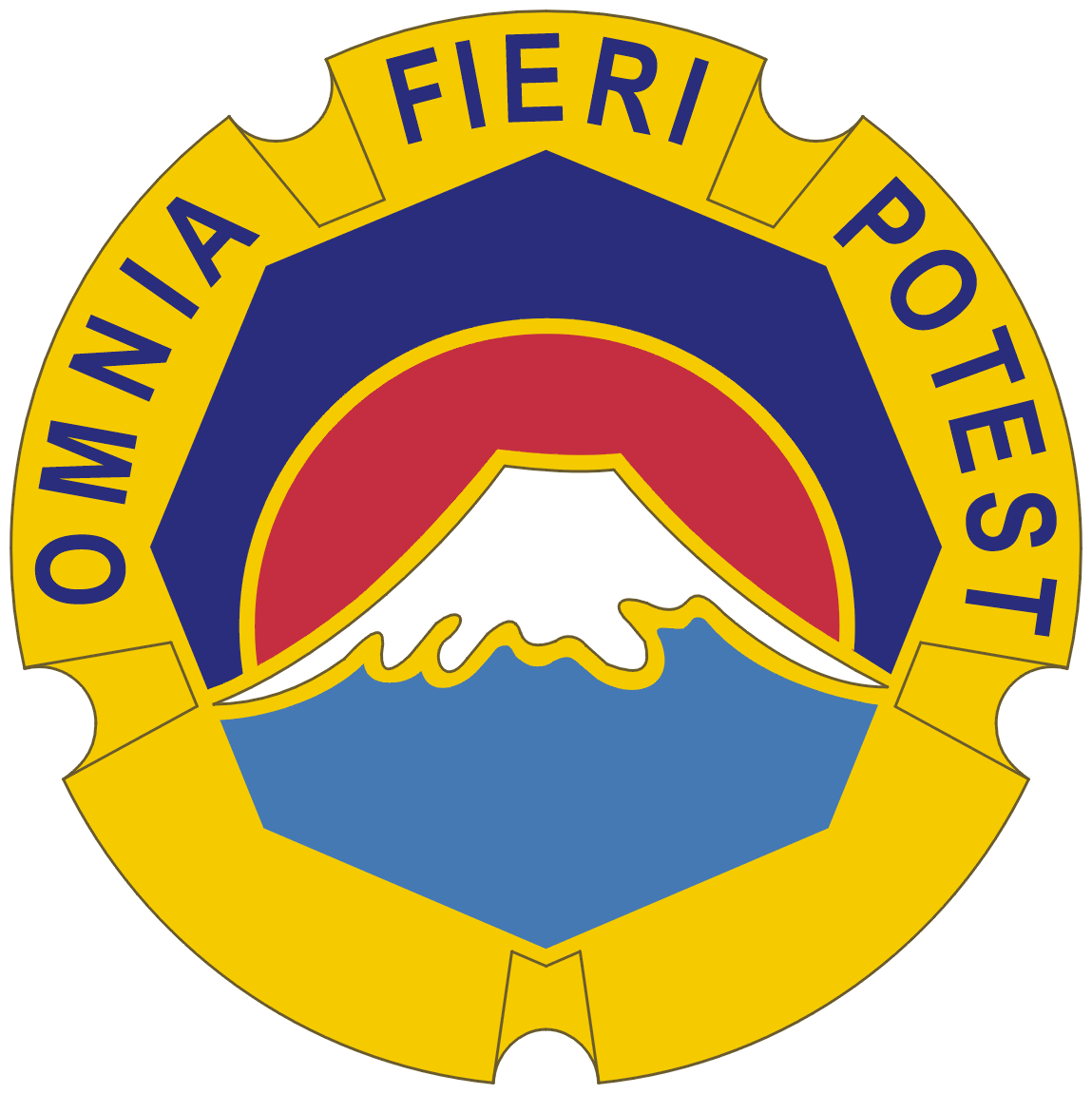 United States Army, Japan distinctive unit insignia from [1]